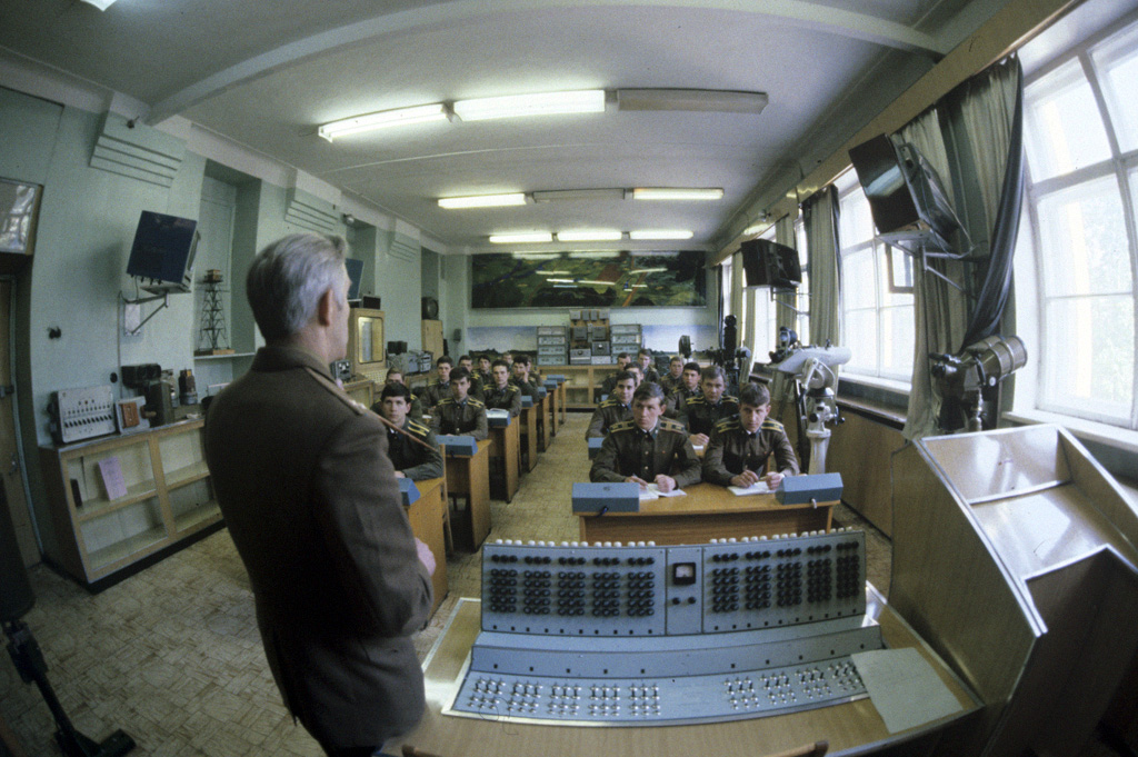 “Lieutenant colonel Alexei Dubovitsky at engineering practice class”. Lieutenant colonel Alexei Dubovitsky at engineering practice class. Moscow Frontier Command KGB university of the USSR named after Mossovet.